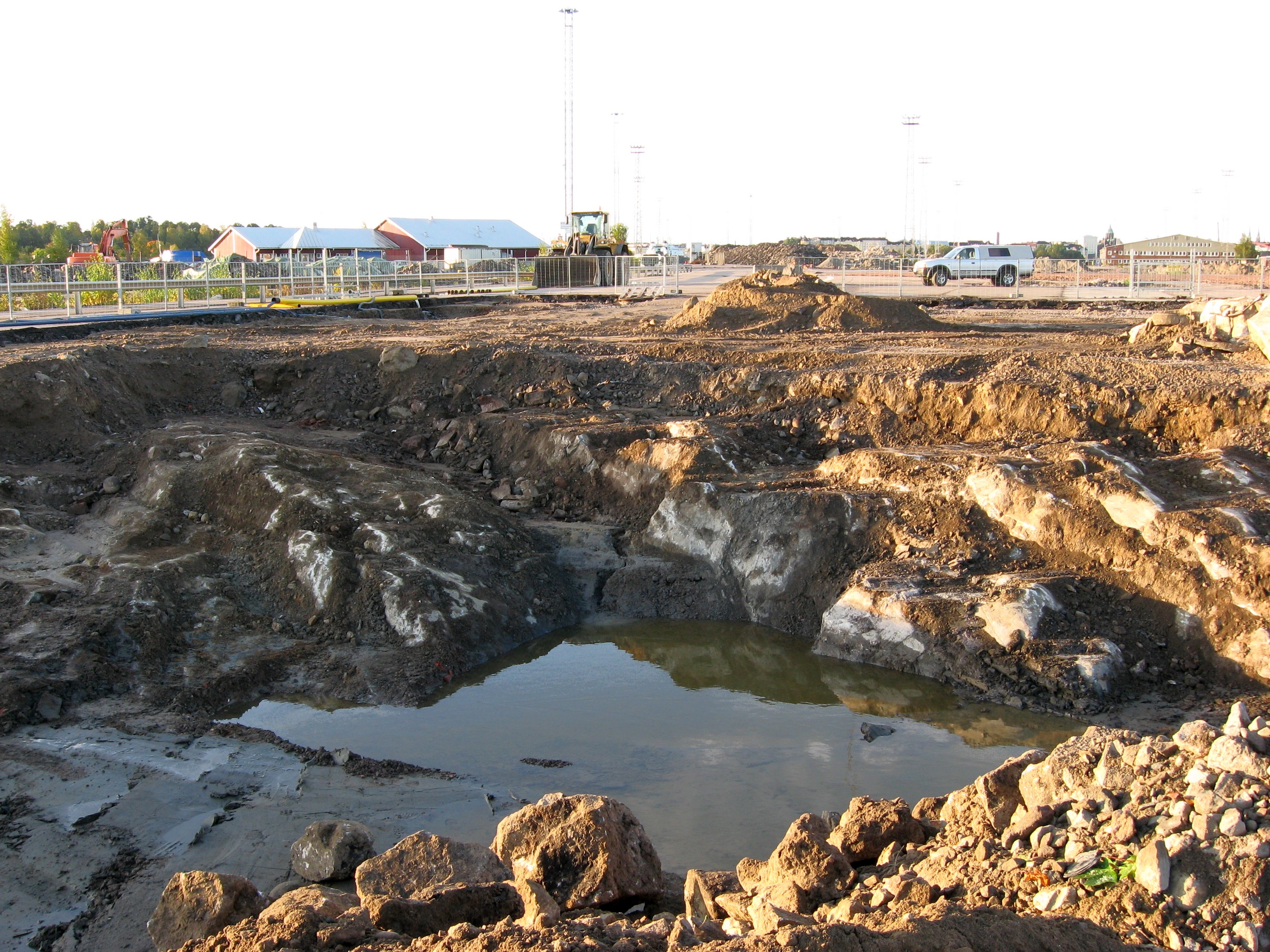 Bedrock which was revealed during soil cleaning operations in Sompasaari harbour, Helsinki, Finland